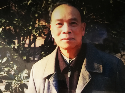 Xie Zifen (simplified